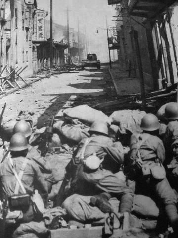 Shanghai Special Naval Landing Forces attacking against an enemy tank, 22 August 1937